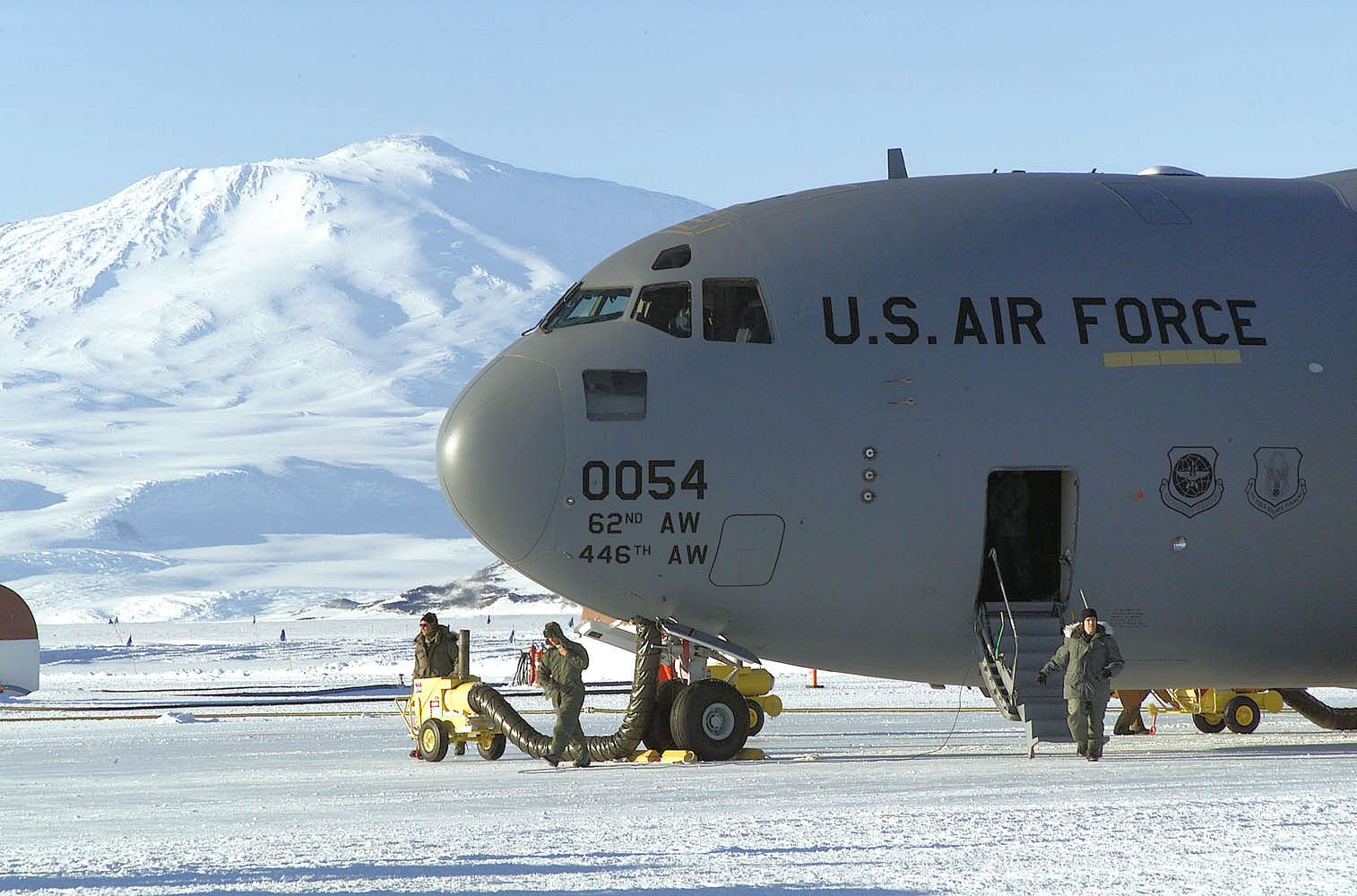 Boeing C-17A Lot X Globemaster III 98-005 flown by members from the 7th Airlift Squadron, sits on the sea-ice parking ramp at McMurdo Station, Antarctica, after touching down for the first time Oct. 15, 1998. A first for the C-17, this is part of validation tests for future Antarctic missions.